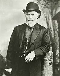 Picture of the first Governor of Oregon, John Whiteaker